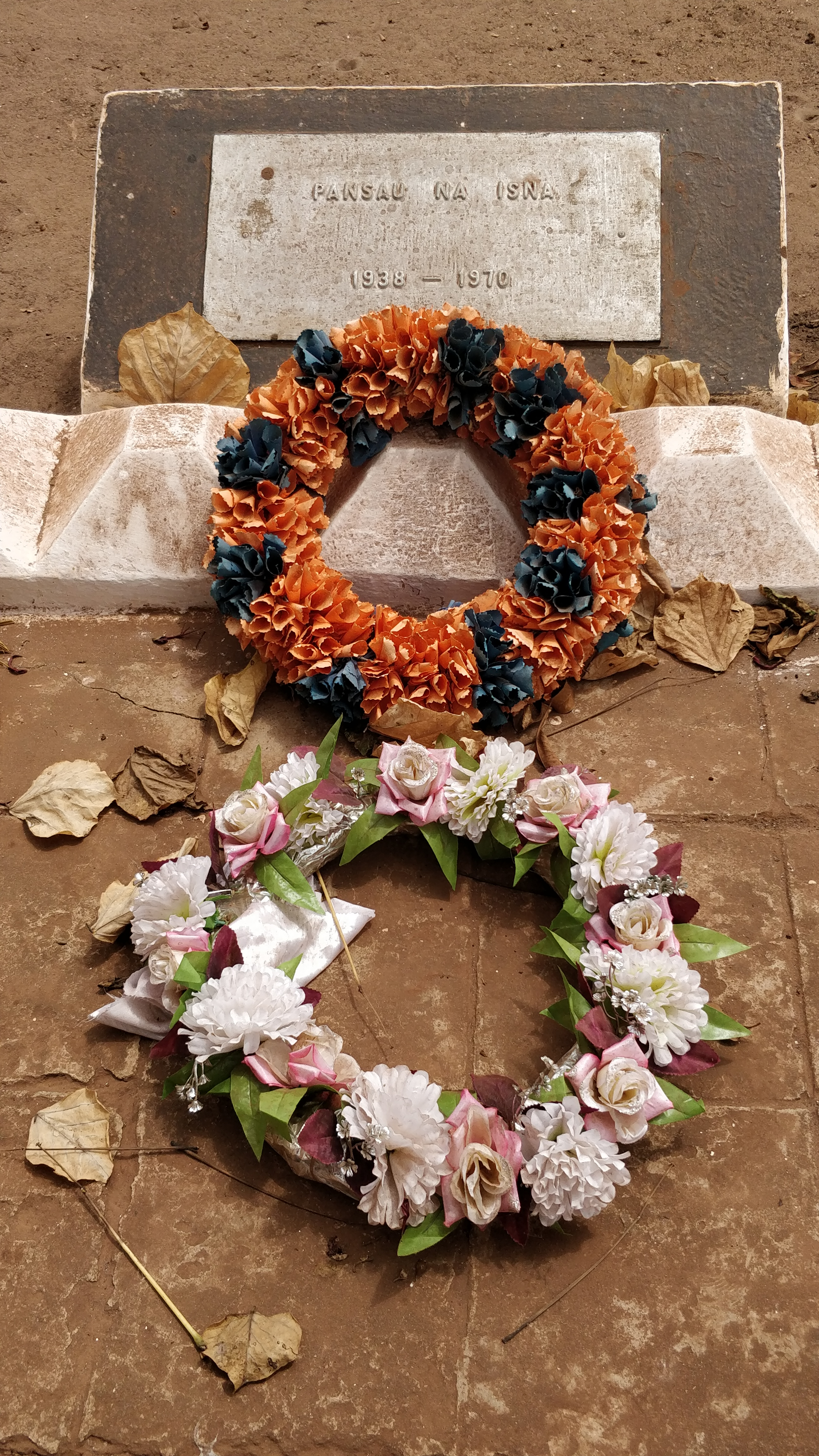 Monument for the Heroes of the Fatherland (Memorial aos Heróis da Pátria) in Bissau